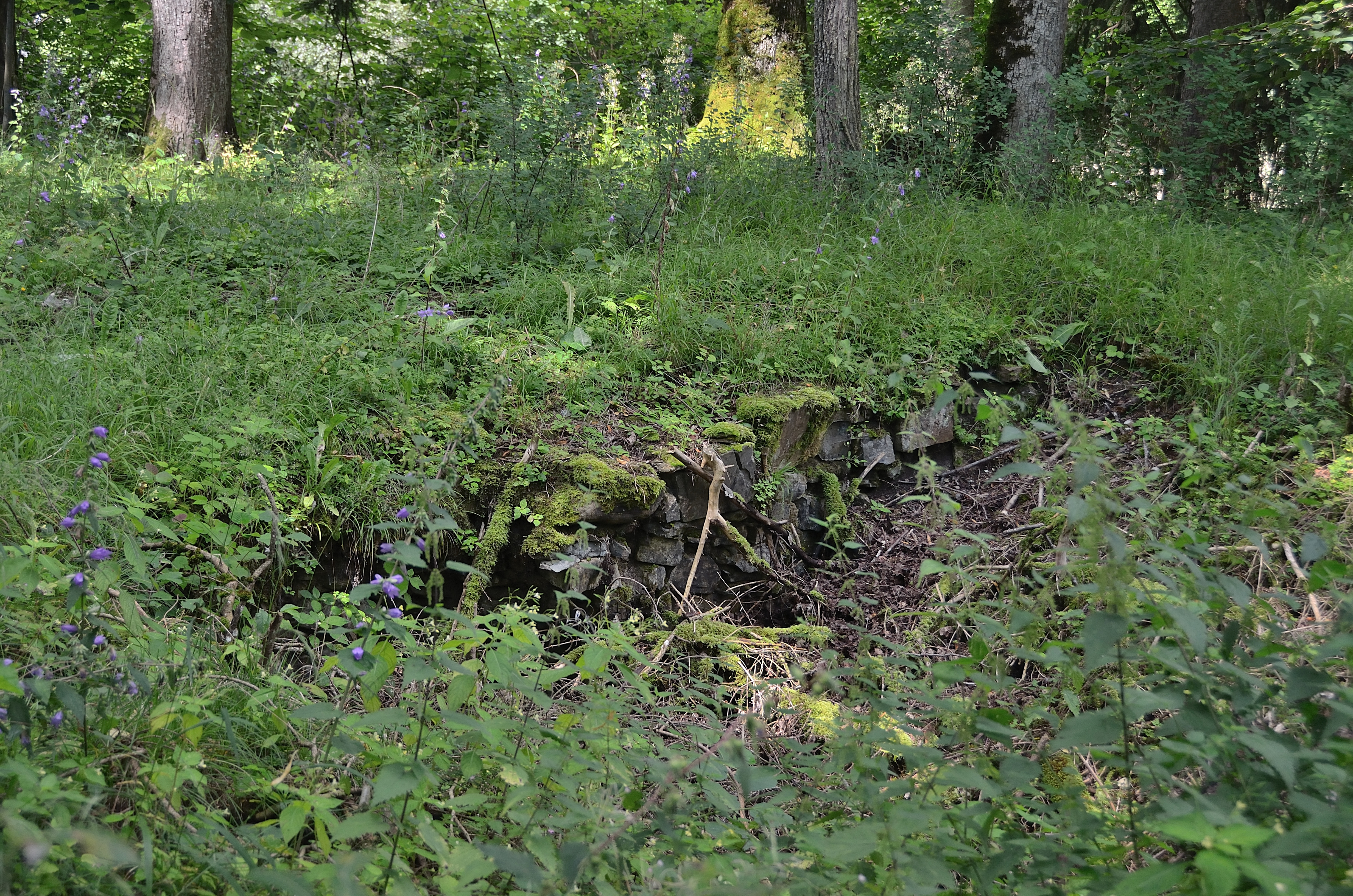 Abondoned castle Burg Altentann in Henndorf am Wallersee, Salzburg. There is only the moat and the island with the burgstall. There are some stone heaps and remainders of walls. A stone/wooden bridge leads to the island. To the East, there is a farmhouse, on all other sides there is the golf club Club Altentann. Remainders of walls at the northern part of the island heading towards the moat.